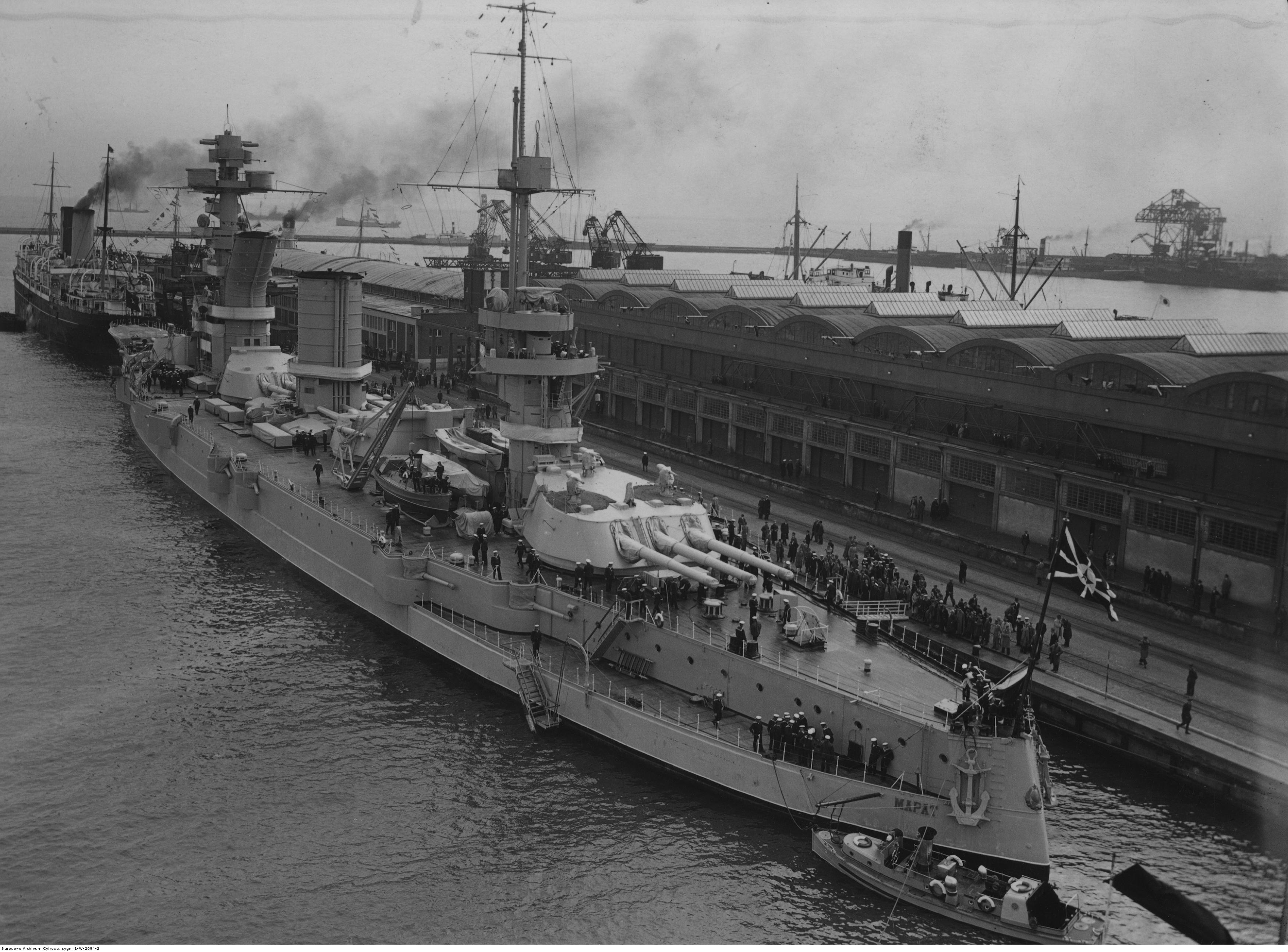 Soviet battleship Marat in Gdynia (Poland), 3 September 1934.